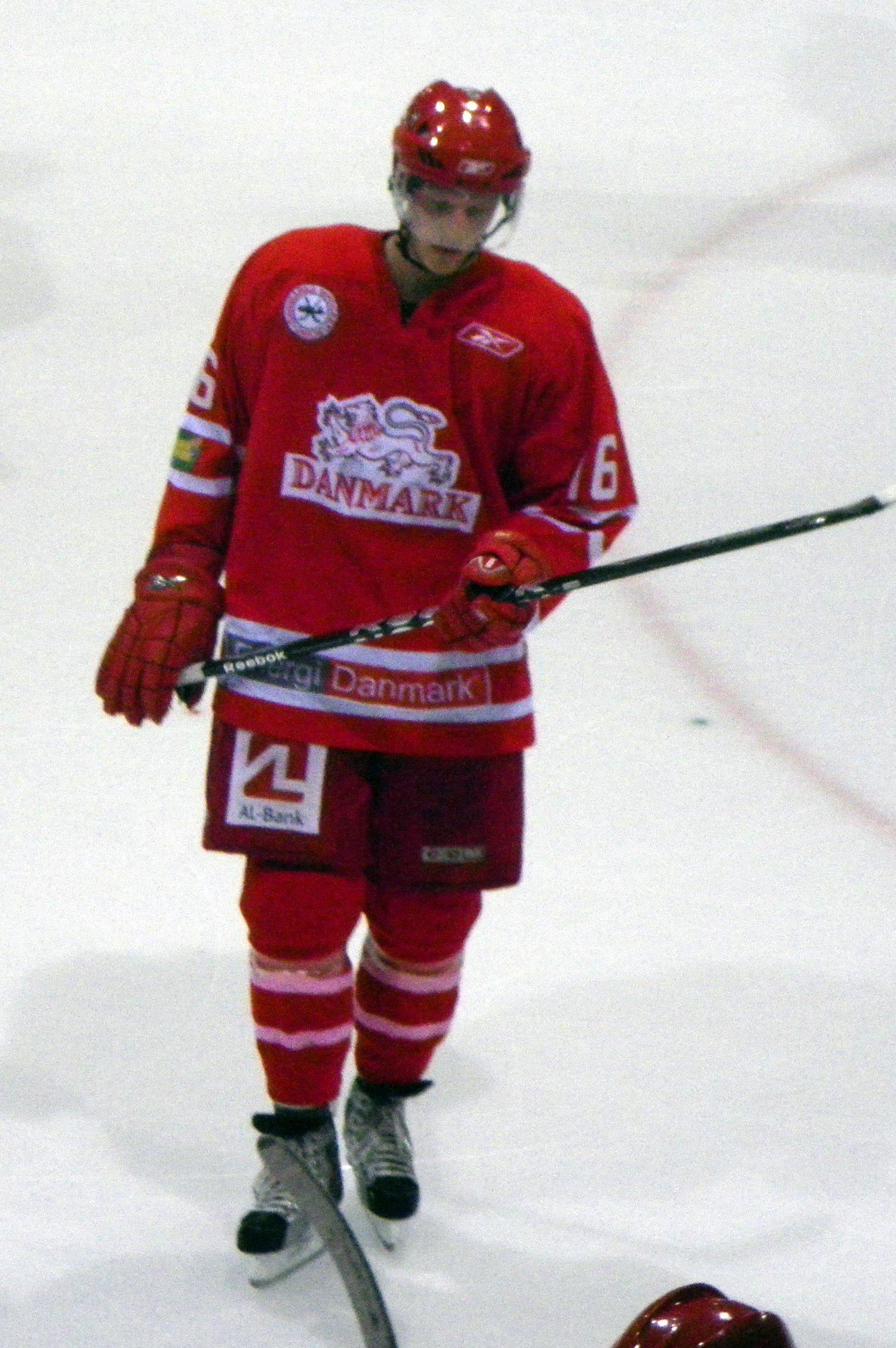 Lars Eller, danish ice hockey player with team Denmark. Friendly against team France.